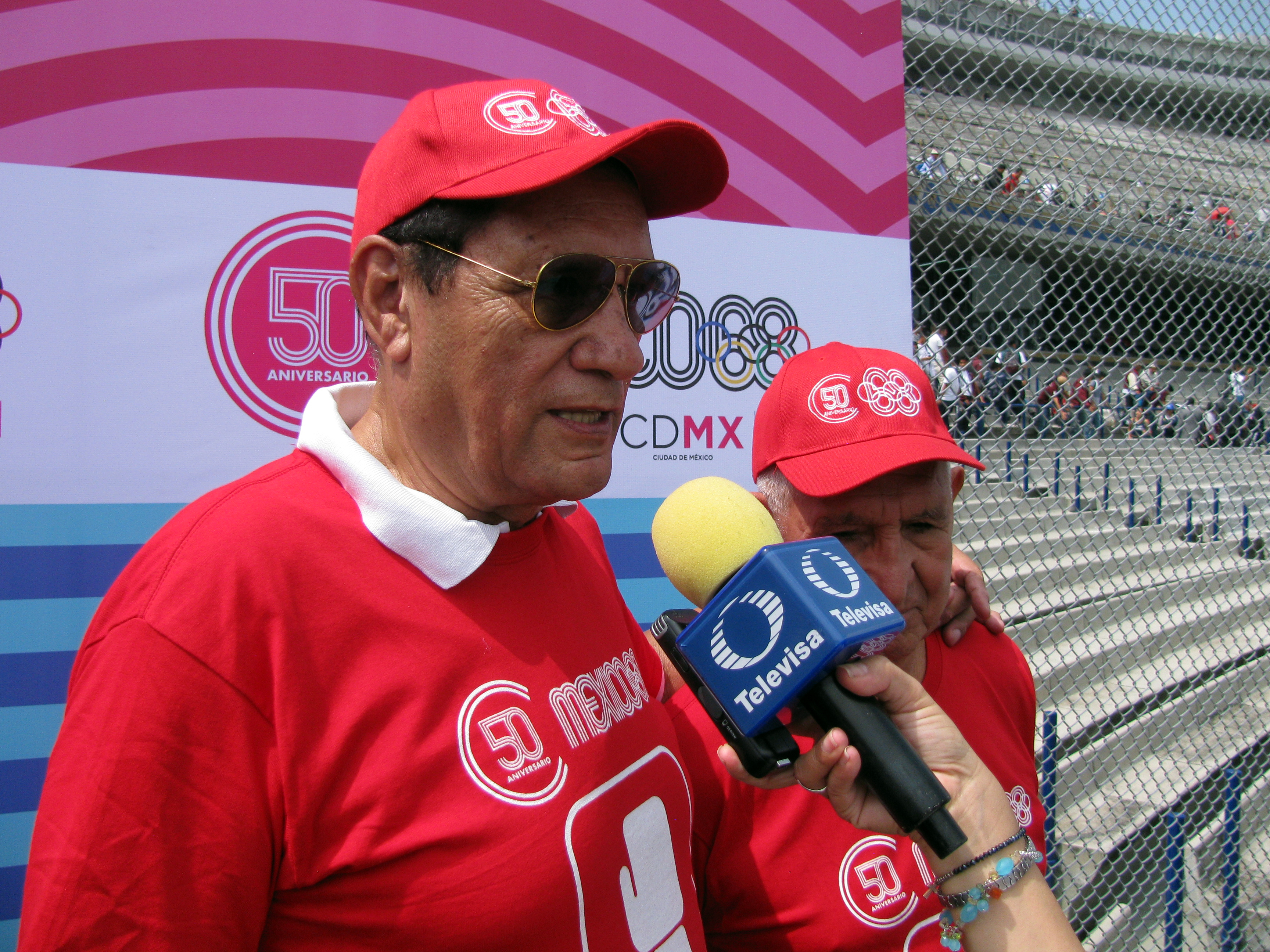 Event to commemorate the 50th anniversary of the 1968 Olympic Games in Mexico. University Olympic Stadium, Mexico City, Mexico.